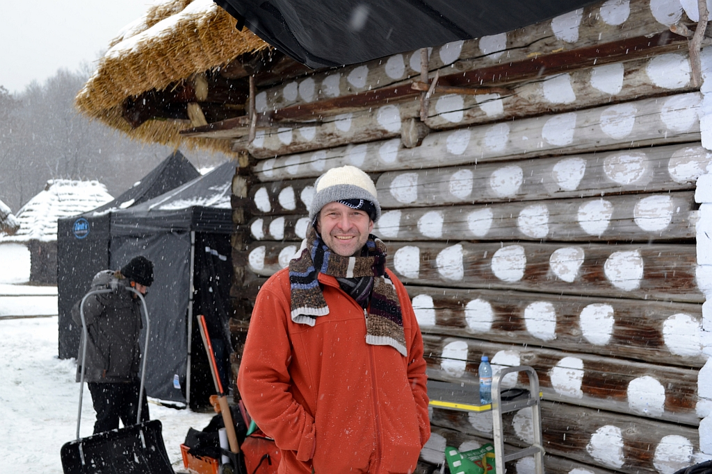 Director Sebastian Ed Ehrenberg